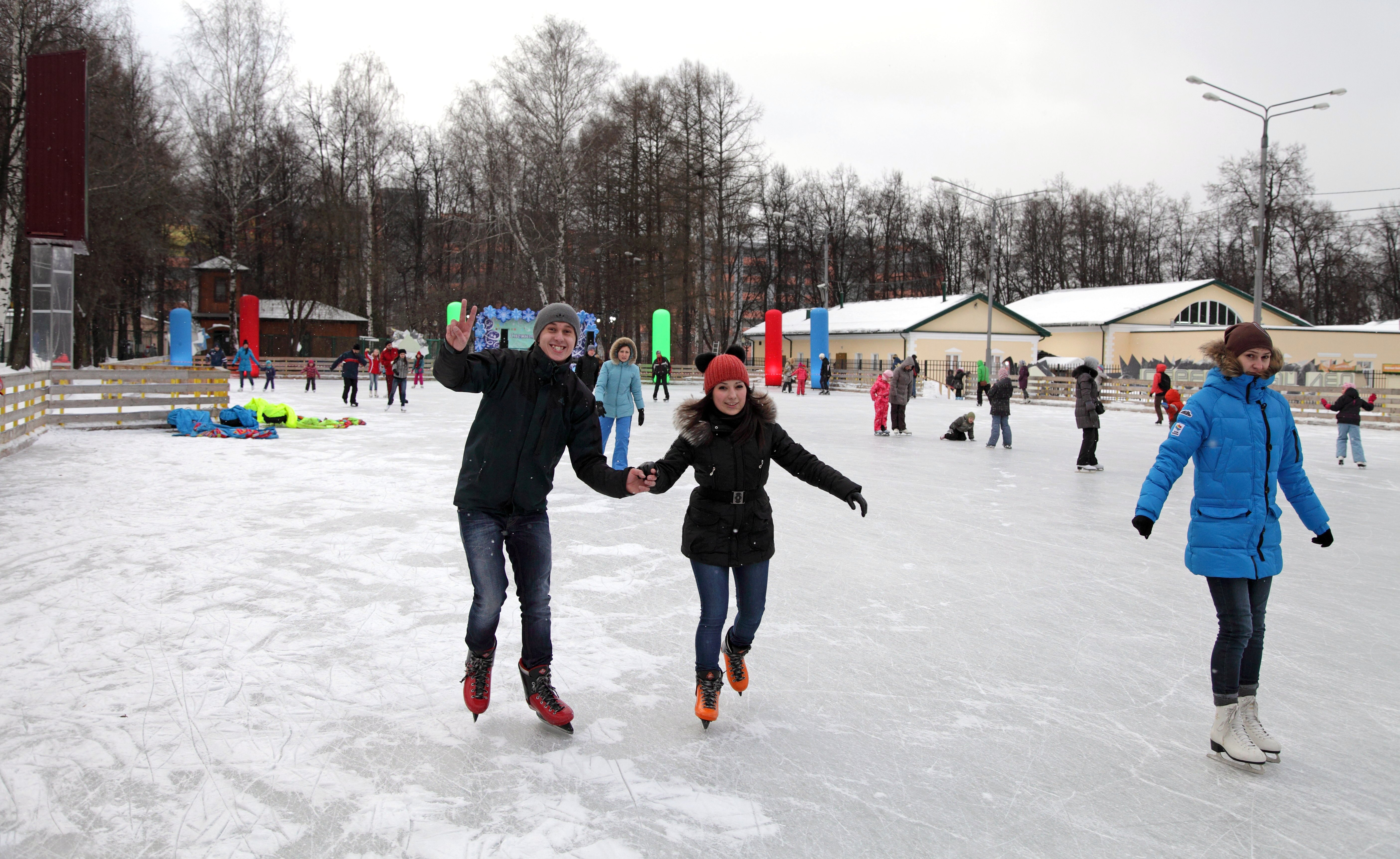 Ice rink, Moscow, Izmailovsky park